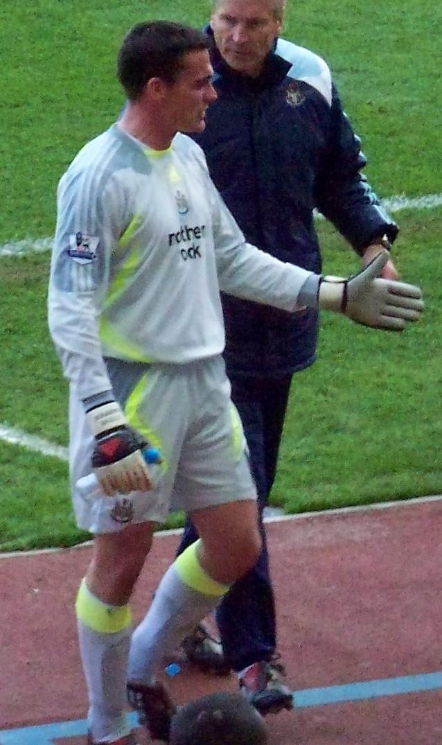 English football (soccer) player Steve Harper